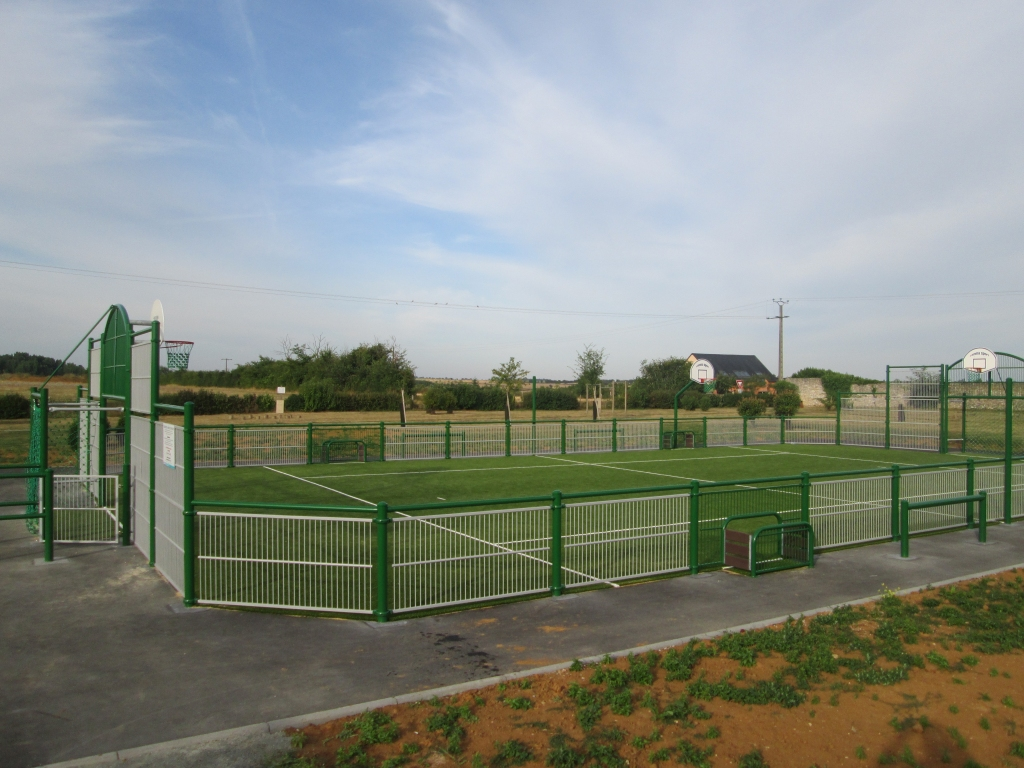 Citystade of Neuvillalais.